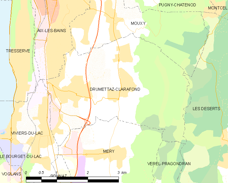 Map of French municipality